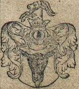 Półkozic сoat of arms from Kronika polska